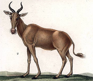 Corine antelope, Antelope corinna, and extinct Bubal Hartebeest, Alcelaphus buselaphus buselaphus. Handcoloured copperplate stipple engraving from Antoine Jussieu's "Dictionary of Natural Science," Florence, Italy, 1837. Illustration by J. G. Pretre, engraved by Giarre, directed by Pierre Jean-Francois Turpin, and published by Batelli e Figli. Jean Gabriel Pretre (1780~1845) was painter of natural history at Empress Josephine's zoo and later became artist to the Museum of Natural History. Turpin (1775-1840) is considered one of the greatest French botanical illustrators of the 19th century.